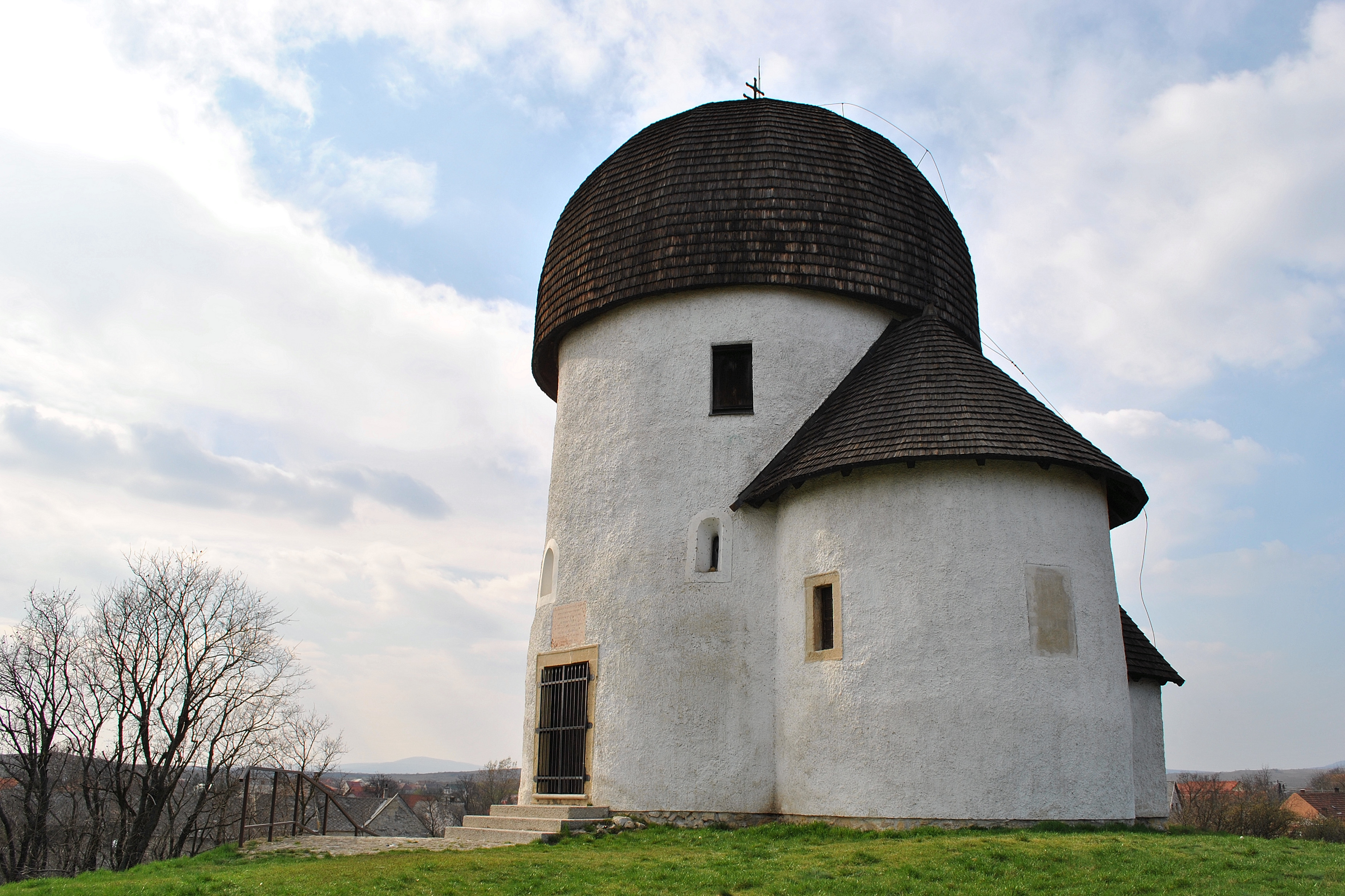 Öskü, Veszprém county, Hungary. Round chapel from the 11-12th century, built on the bases of ancient roman watchtower.